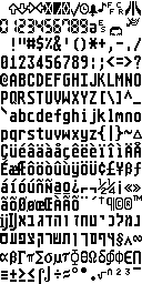 The Atari ST character set as rendered in the 8×16 system high-resolution font. Includes all code points (0-255).